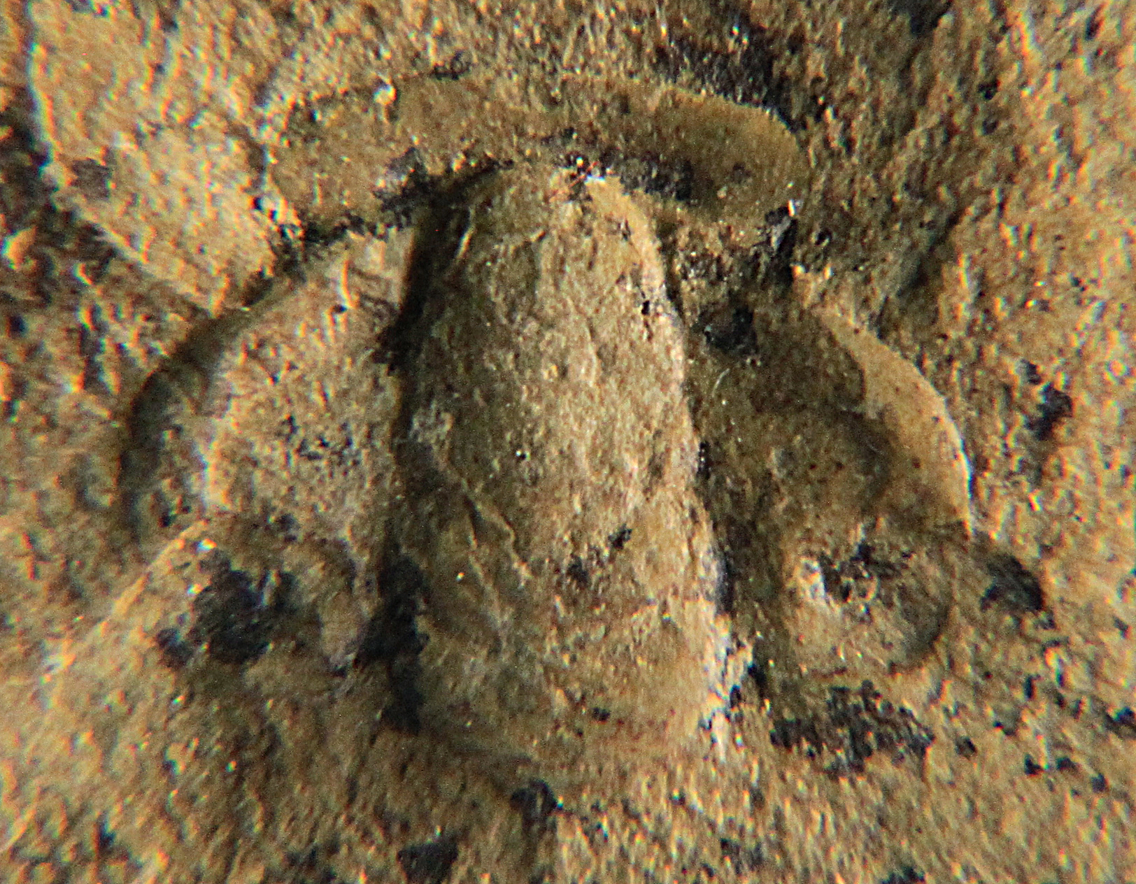 A Richterops falloti trilobite, Order Redlichiida, Family Saukiandidae, cranidium, 9mm along the axis, collected near Tazemmourte, Morocco, Lower Cambrian (Middle Atdabanian to Lower Botomian)